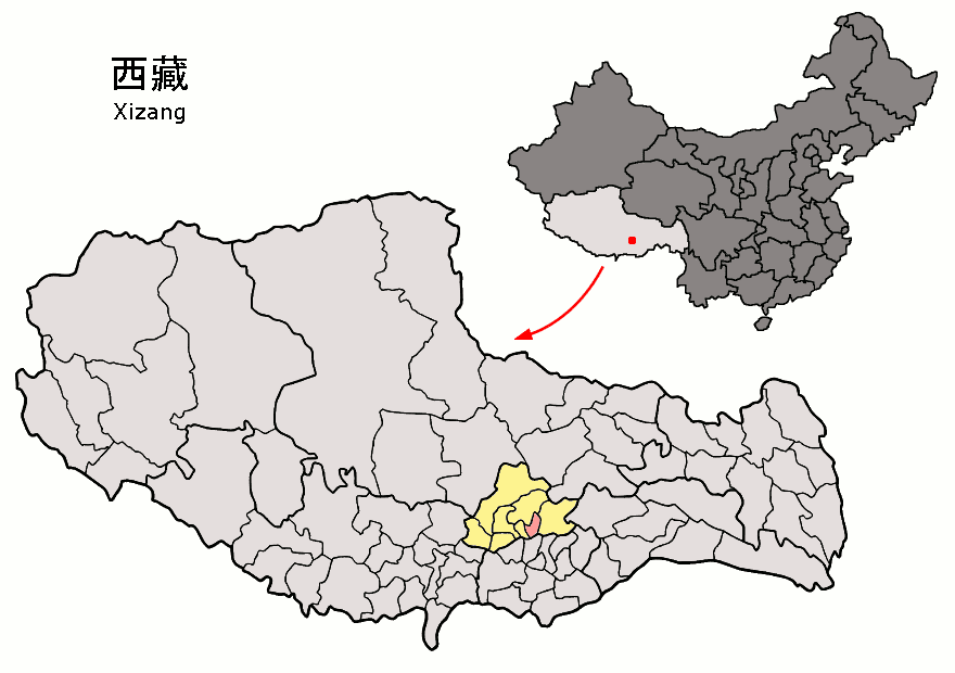 Location of Dagzê County (pink) and Lhasa prefecture (yellow) within Tibet (Xizang) autonomous region of China